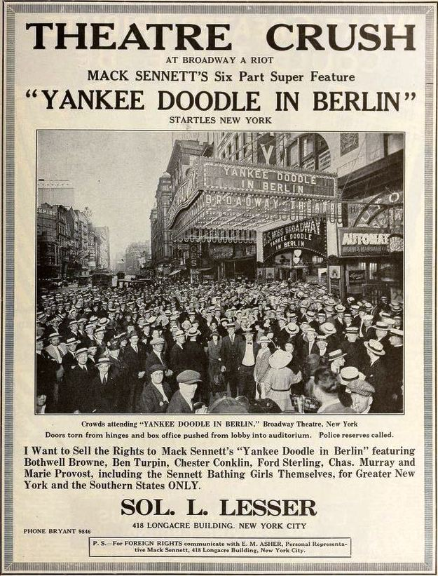 Ad for the American film Yankee Doodle in Berlin showing the Broadway Theatre in New York City, on page 647 of the July 19, 1919 Motion Picture News.